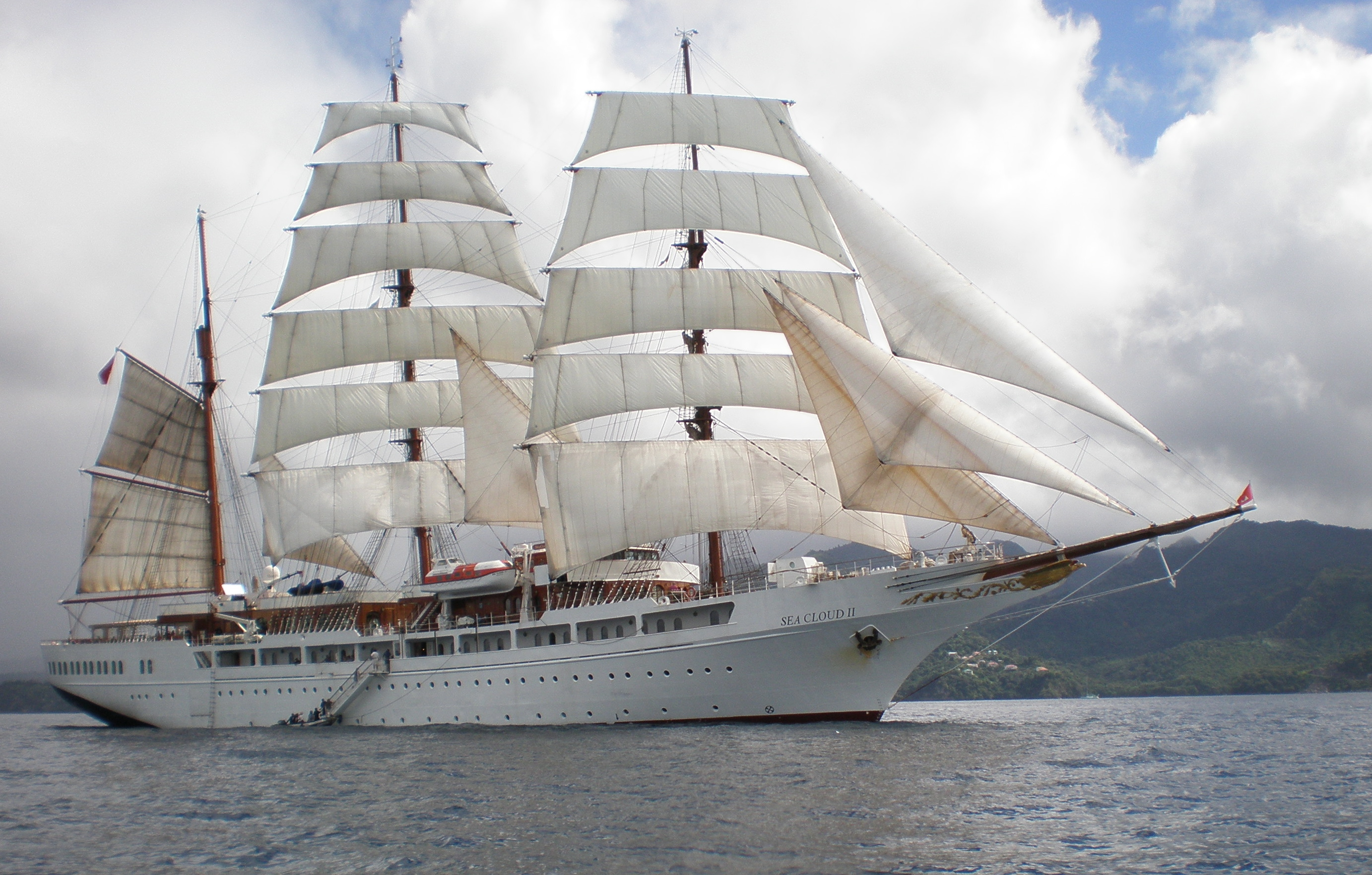 The Sea Cloud II under full sail off the coast of Granada, Feb. 14, 2011